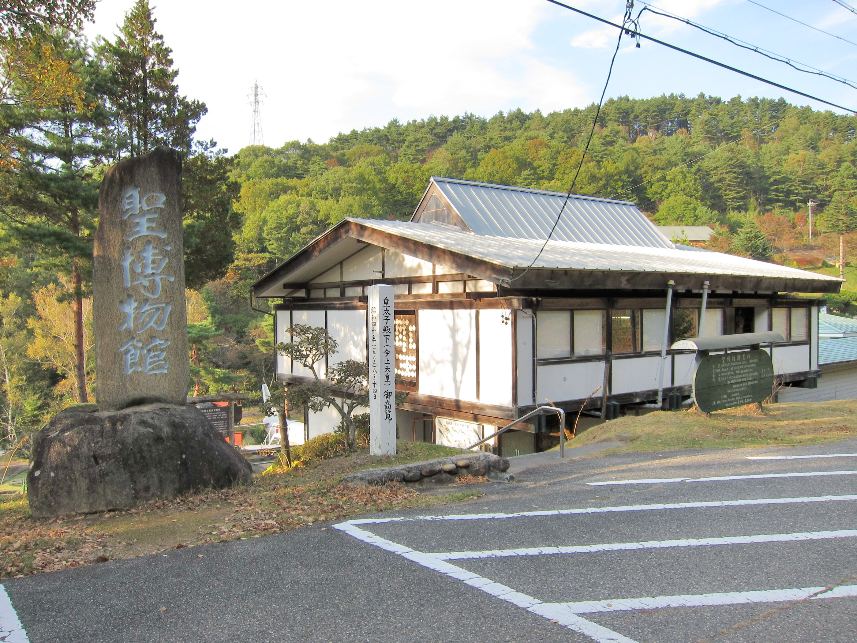 Photograph of Hijiri Museum, entrance and main building exterior. address 5889-1 Ohijiri, Omi Village, Higashichikuma District, Nagano Prefecture, Japan photo date October 16, 2010